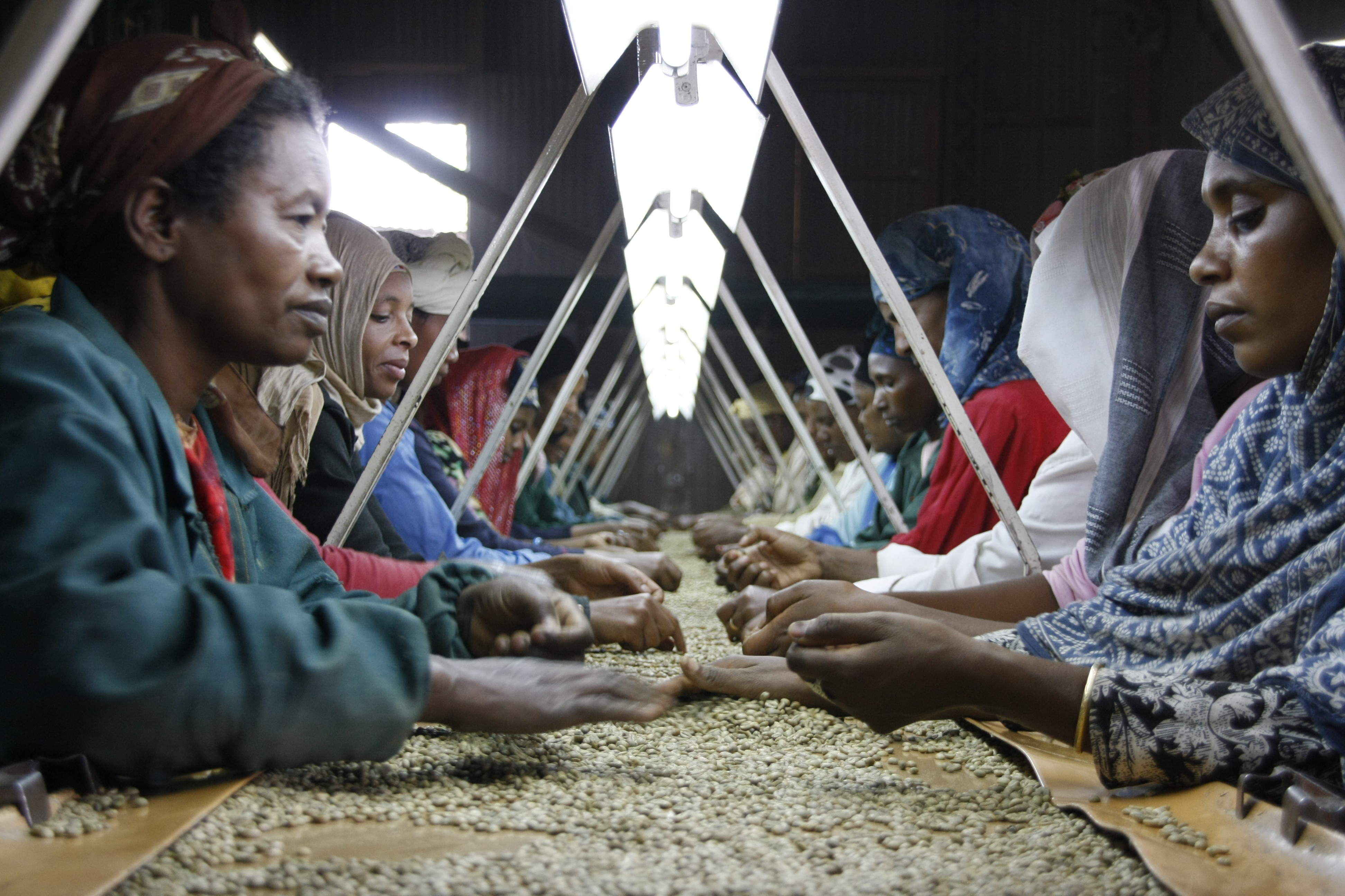 Workers at Ambassa Enterprises, a coffee buyer and exporter based in Addis Ababa, sort the beans for export. Ambassa is run by Geoffrey Wetherill, a Lancastrian who arrived in Ethiopia during the Second World War. He got a taste for the country and the coffee, and returned soon after to establish Ambassa, now one of Ethiopia's leading coffee exporters. Geoffrey is enthusiastic about the Ethiopia Commodity Exchange, which was developed thanks to UK aid funded research: "It's certainly improved things here," he says. "And we are seeing a better grade of coffee now." DFID supported two leading research institutes who were tasked with finding a solution to Ethiopia's inefficient food and commodity markets. The UK aid funded research recommended setting up a commodity exchange and helped to design the warehousing, logistics and payment systems that the exchange uses today. The exchange helps to boost exports and secure a better deal for farmers and consumers. Photo: Pete Lewis/Department for International Development